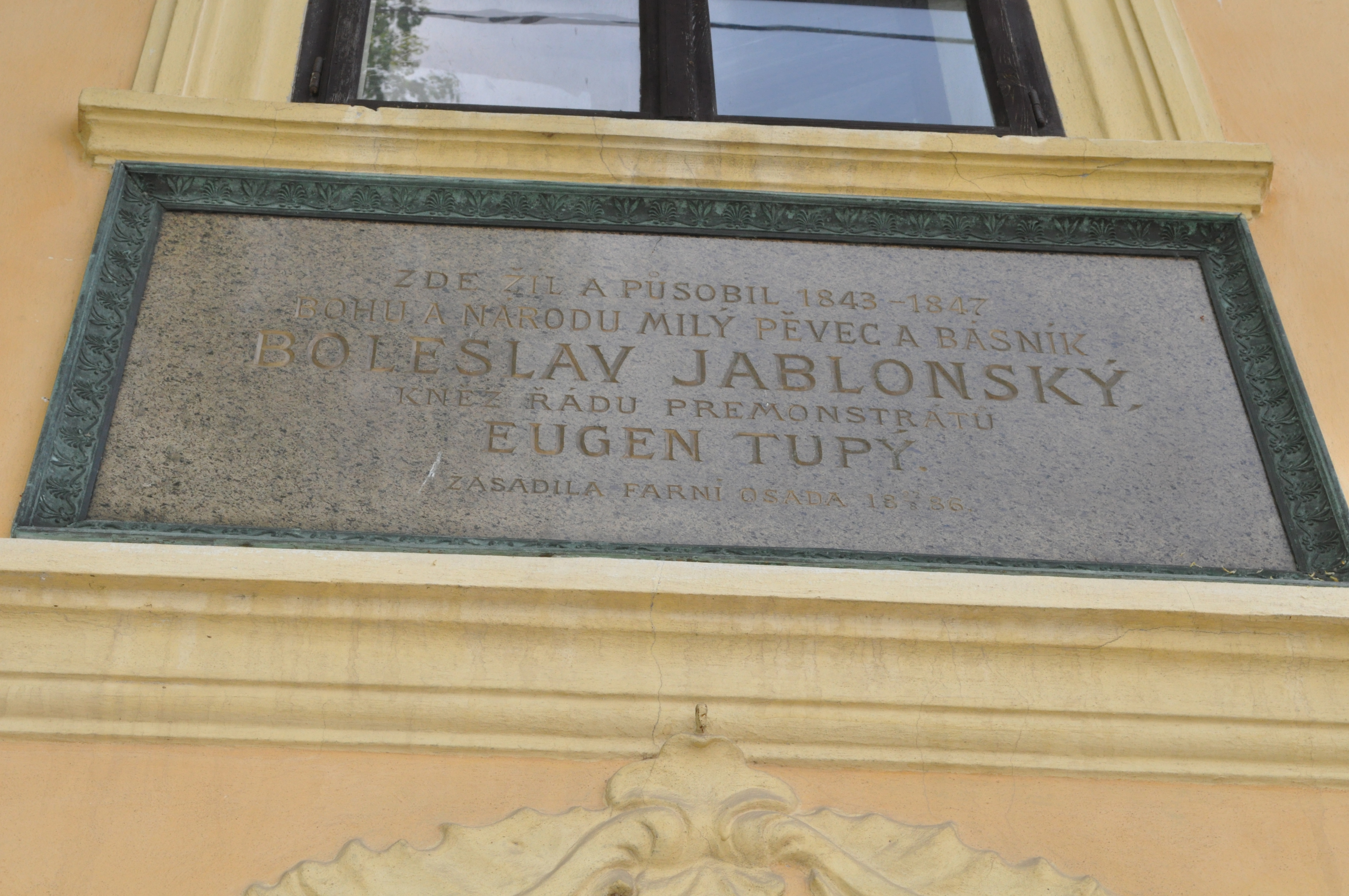 Radonice nad Ohří - Plaque of Bohuslav Jablonský